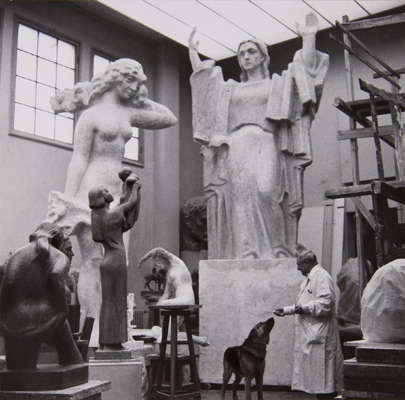 Wäinö Aaltonen feeding his dog in his studio. In front of the windows is the more than four meter high the Virgin Finland, which now is in the lecture hall of the Wäinö Aaltonen museum.